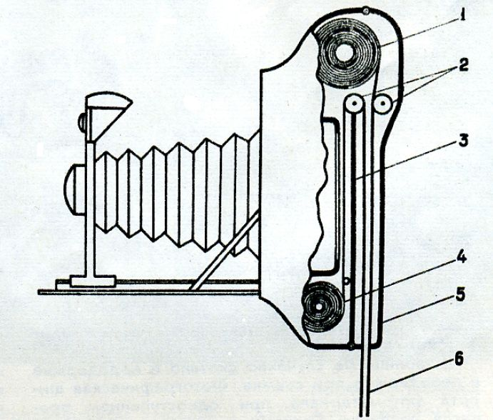 Structure of "Moment" camera.